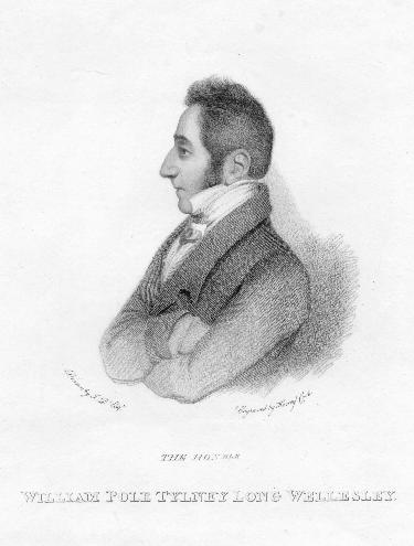 Drawing of the Hon. William Pole Tylney Long Wellesley. Uploaded by Brograve. Artist unknown but would have been drawn c.1812 when he was married.